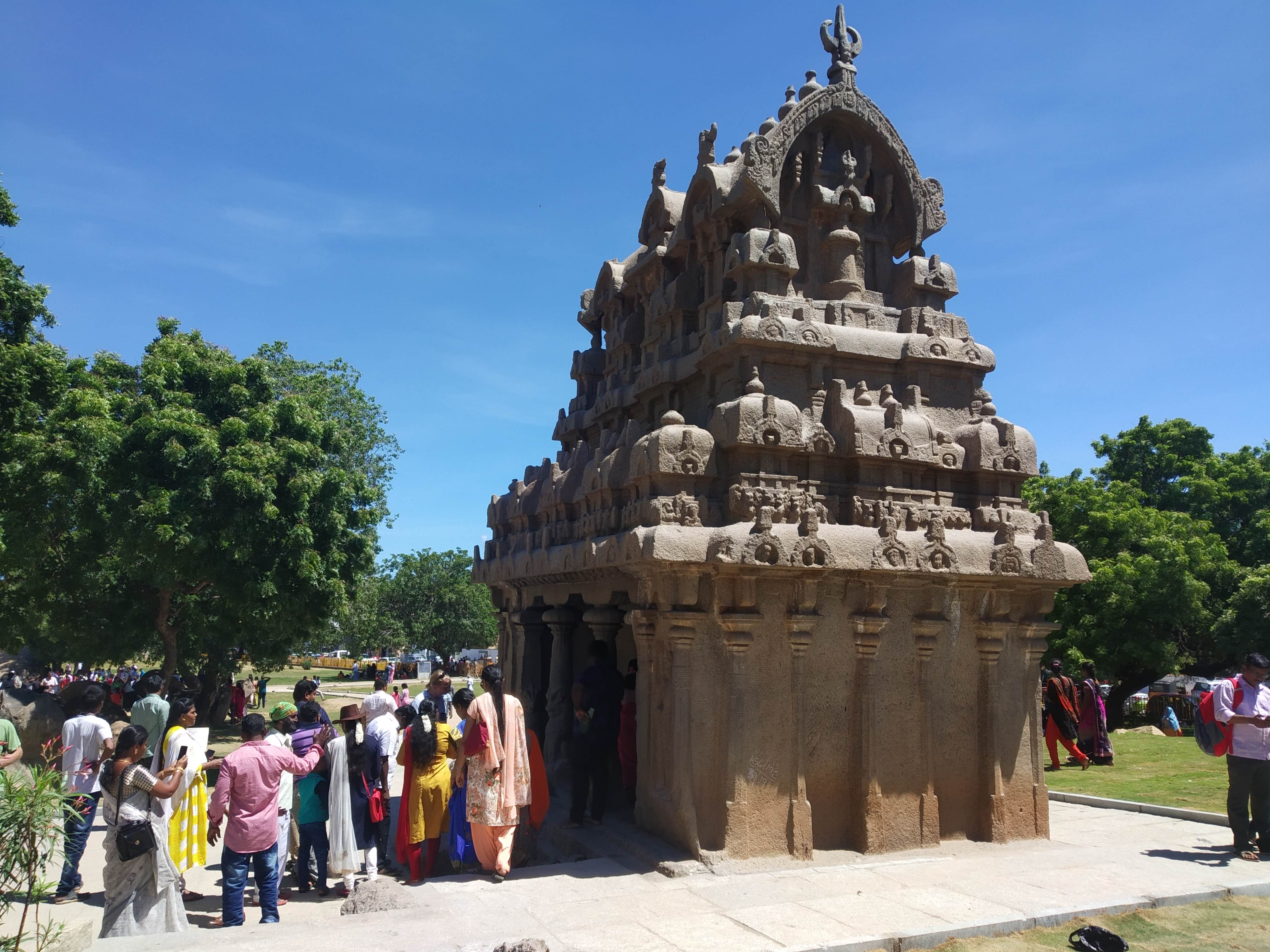 Mahabalipuram is a town with many stone carved monuments created during the 7th century BC. It is a UNESCO World Heritage Site. Ganesha Ratha is a temple in Mahabalipuram near the famous Krishna's Butterball.